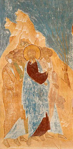 The Barren Fig Tree